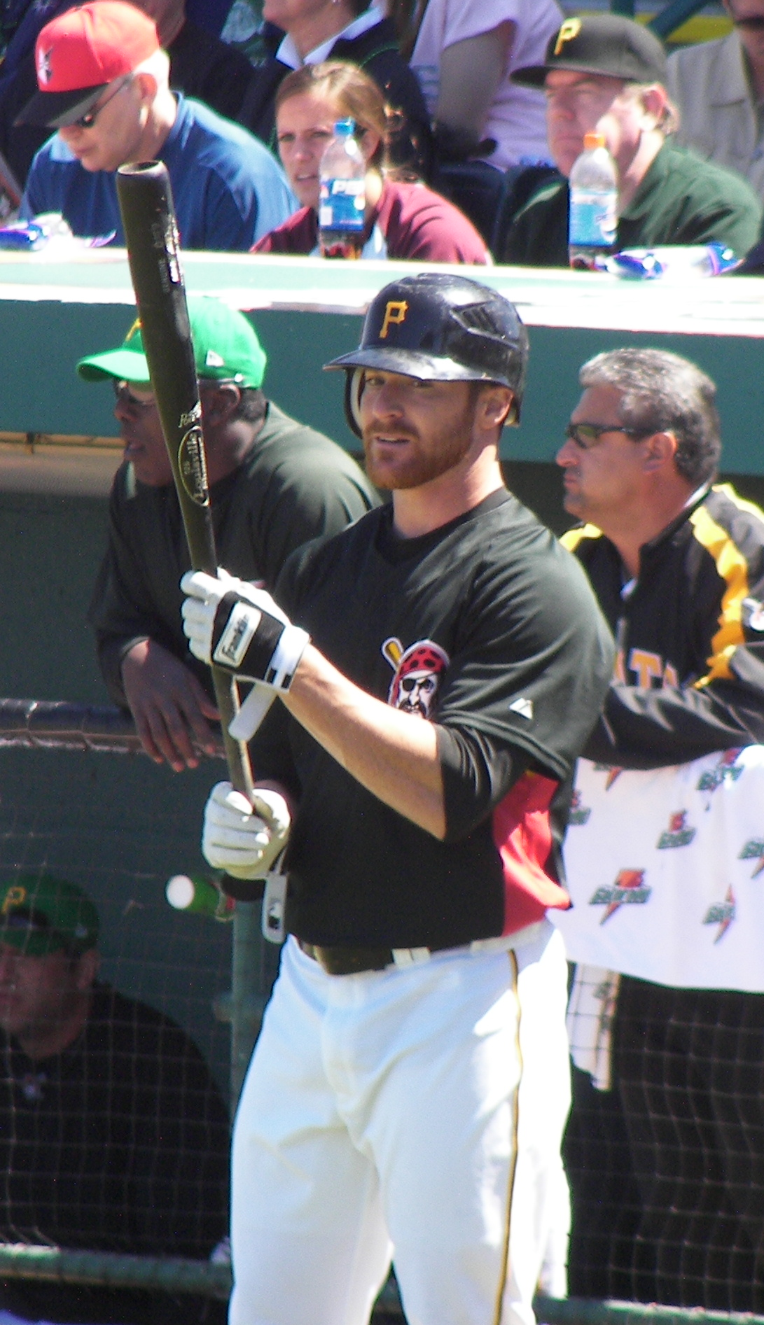 Pittsburgh Pirates outfielder Chris Duffy during a Pirates/Minnesota Twins spring training game at McKechnie Field in Bradenton, Florida.